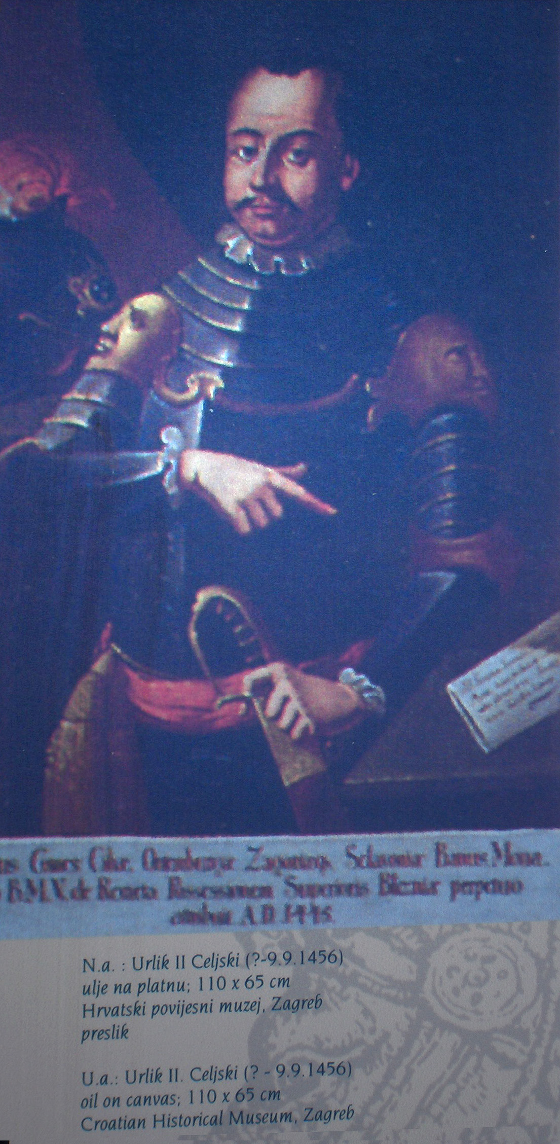 Ulrich II of Celje (1406-1456), Croatian Historical Museum, Zagreb, Croatia